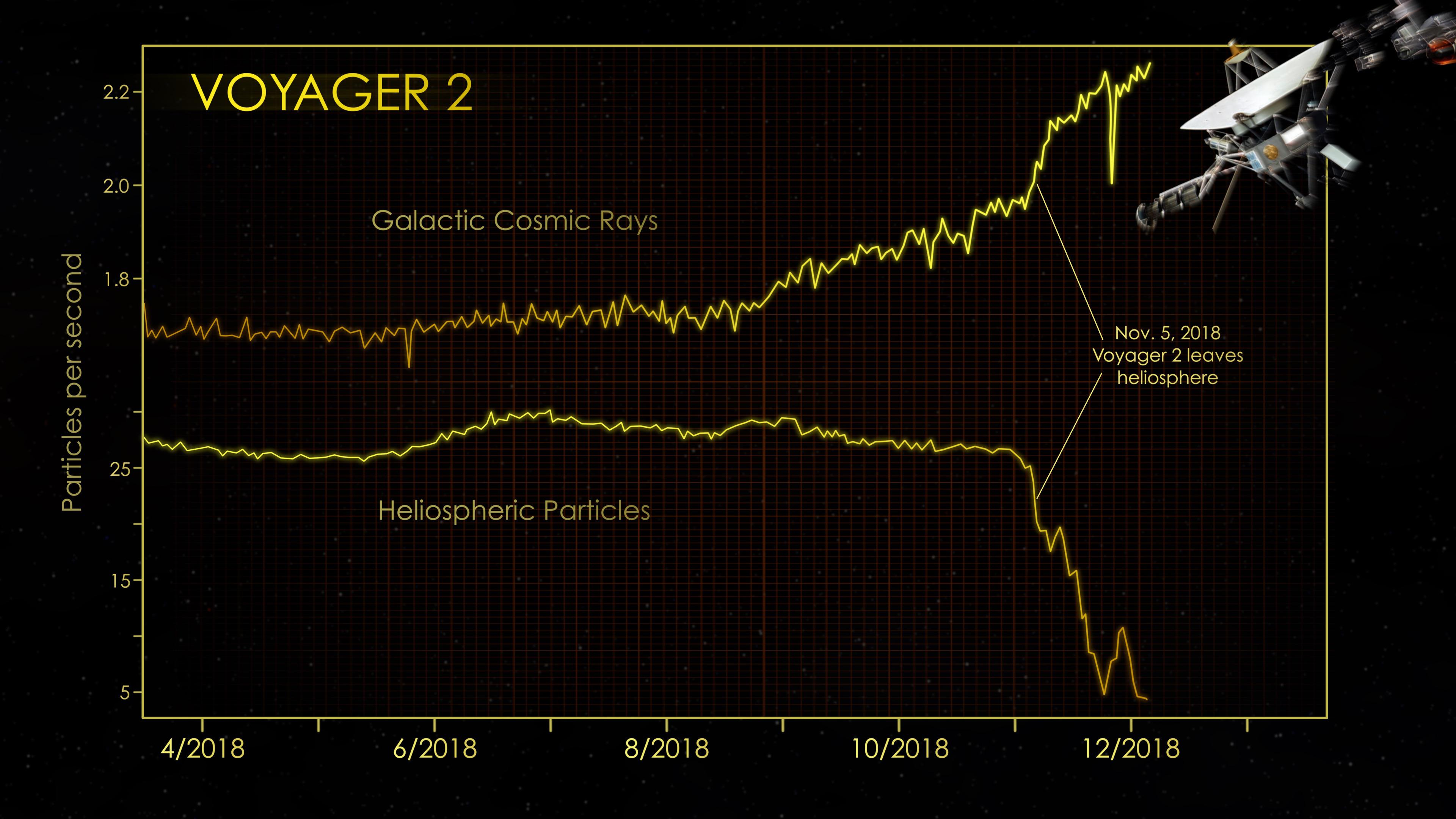 PIA22924: Voyager 2: Hello Interstellar Space, Goodbye Heliosphere At the end of 2018, the cosmic ray subsystem (CRS) aboard NASA's Voyager 2 spacecraft provided evidence that Voyager 2 had left the heliosphere (the plasma bubble the Sun blows around itself). There were steep drops in the rate at which particles that originate inside the heliosphere hit the instrument's radiation detector. At the same time, there were significant increases in the rate at which particles that originate outside our heliosphere (also known as galactic cosmic rays) hit the detector. The graphs show data from Voyager 2's CRS, which averages the number of particle hits over a six-hour block of time. CRS detects both lower-energy particles that originate inside the heliosphere (greater than 0.5 MeV) and higher-energy particles that originate farther out in the galaxy (greater than 70 MeV). The Voyager spacecraft were built by JPL, which continues to operate both. JPL is a division of Caltech in Pasadena. California. The Voyager missions are a part of the NASA Heliophysics System Observatory, sponsored by the Heliophysics Division of the Science Mission Directorate in Washington. For more information about the Voyager spacecraft, visit and